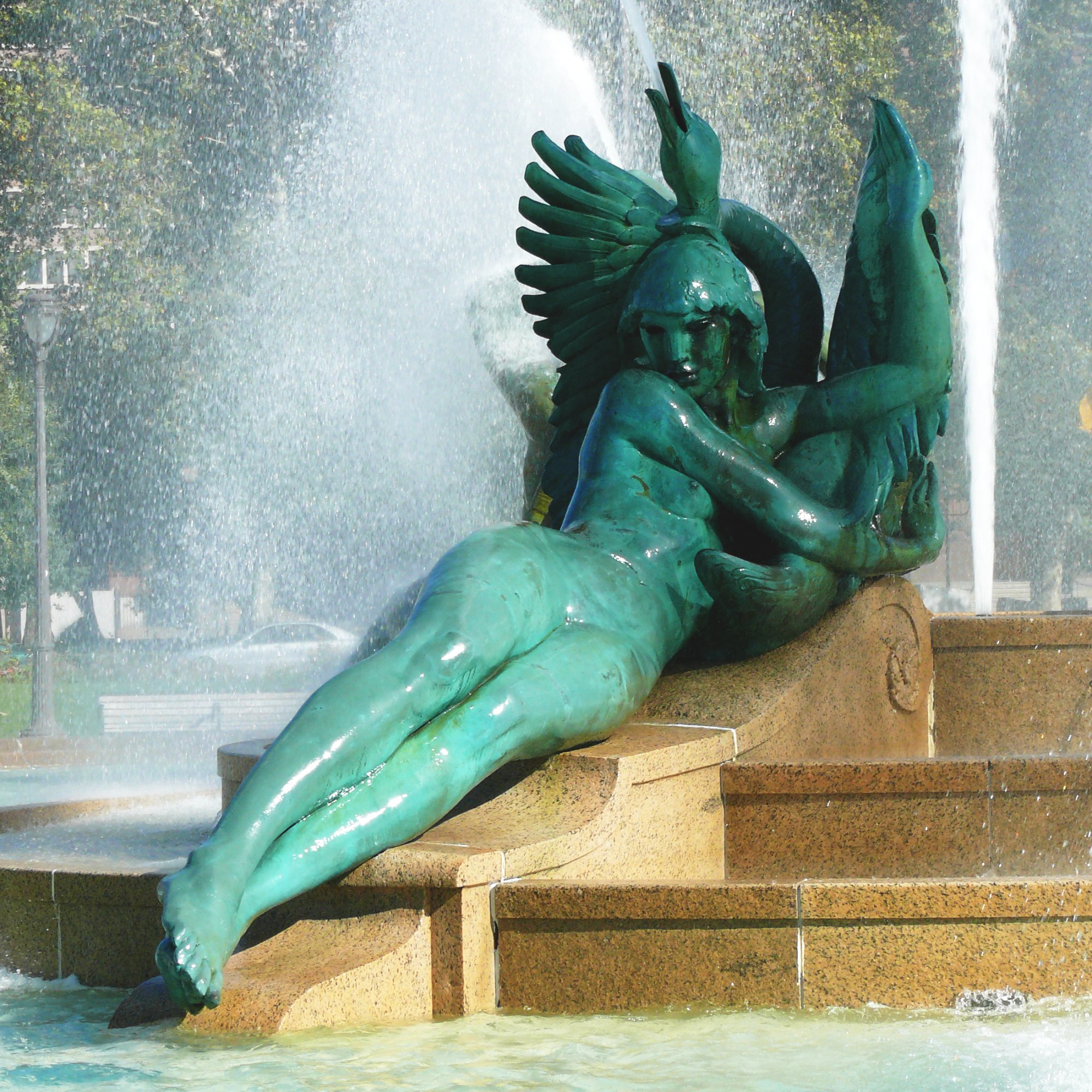 The Wissahickon Girl is one of three figures that comprise the Swann Memorial Fountain in Logan Square. Each of the three statues is intended to represent one of the three major streams in the area - Wissahickon Creek, the Schuylkill River, and the Delaware River.Photo taken with a Panasonic Lumix DMC-FZ50 in Philadelphia, PA, USA.